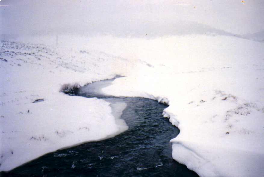 The Eucumbene River, Kiandra goldfields, in the snows of 1990.